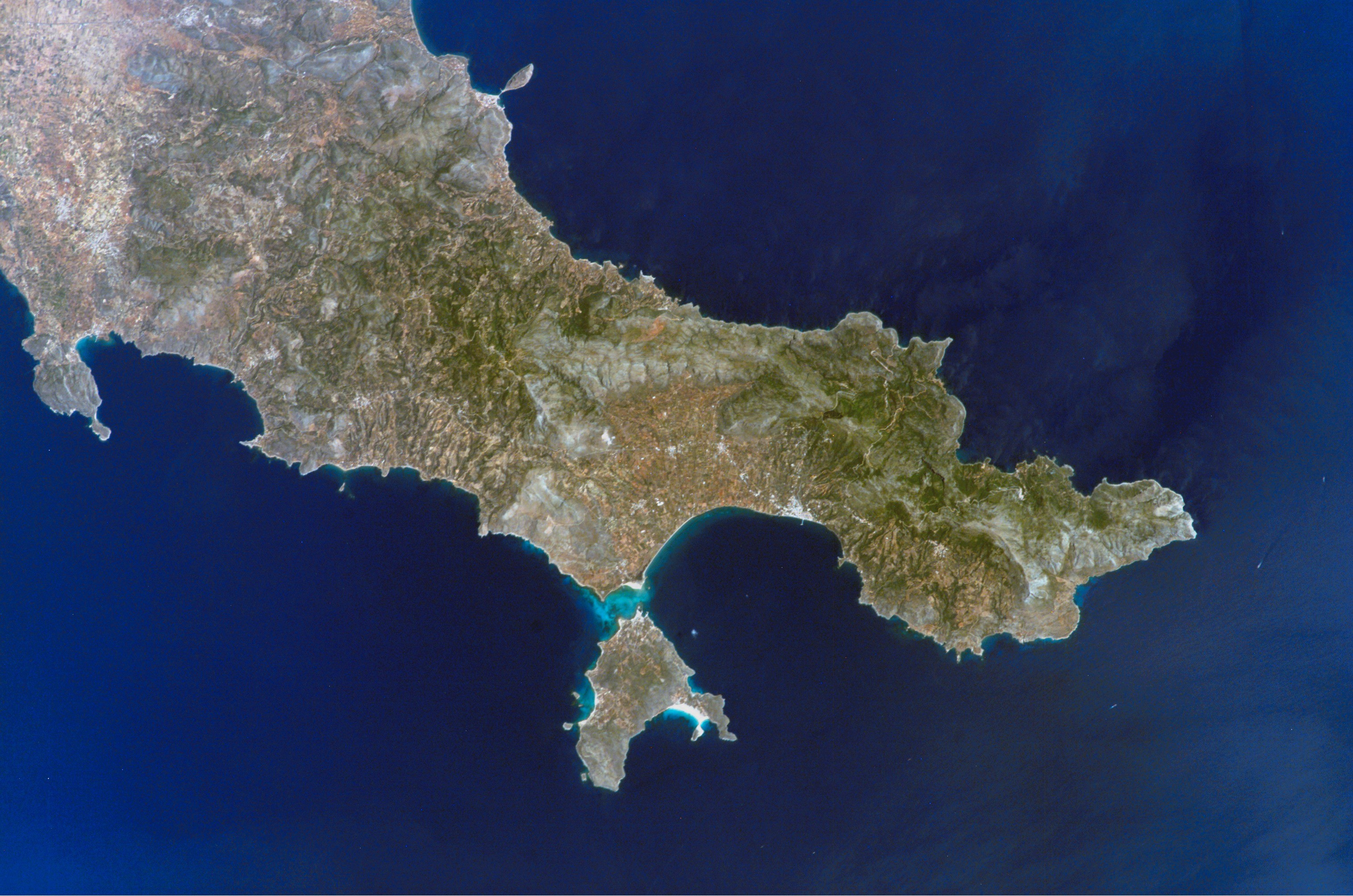 Cape Malea and Elafonissos island in the Bay of Vatika, Greece.